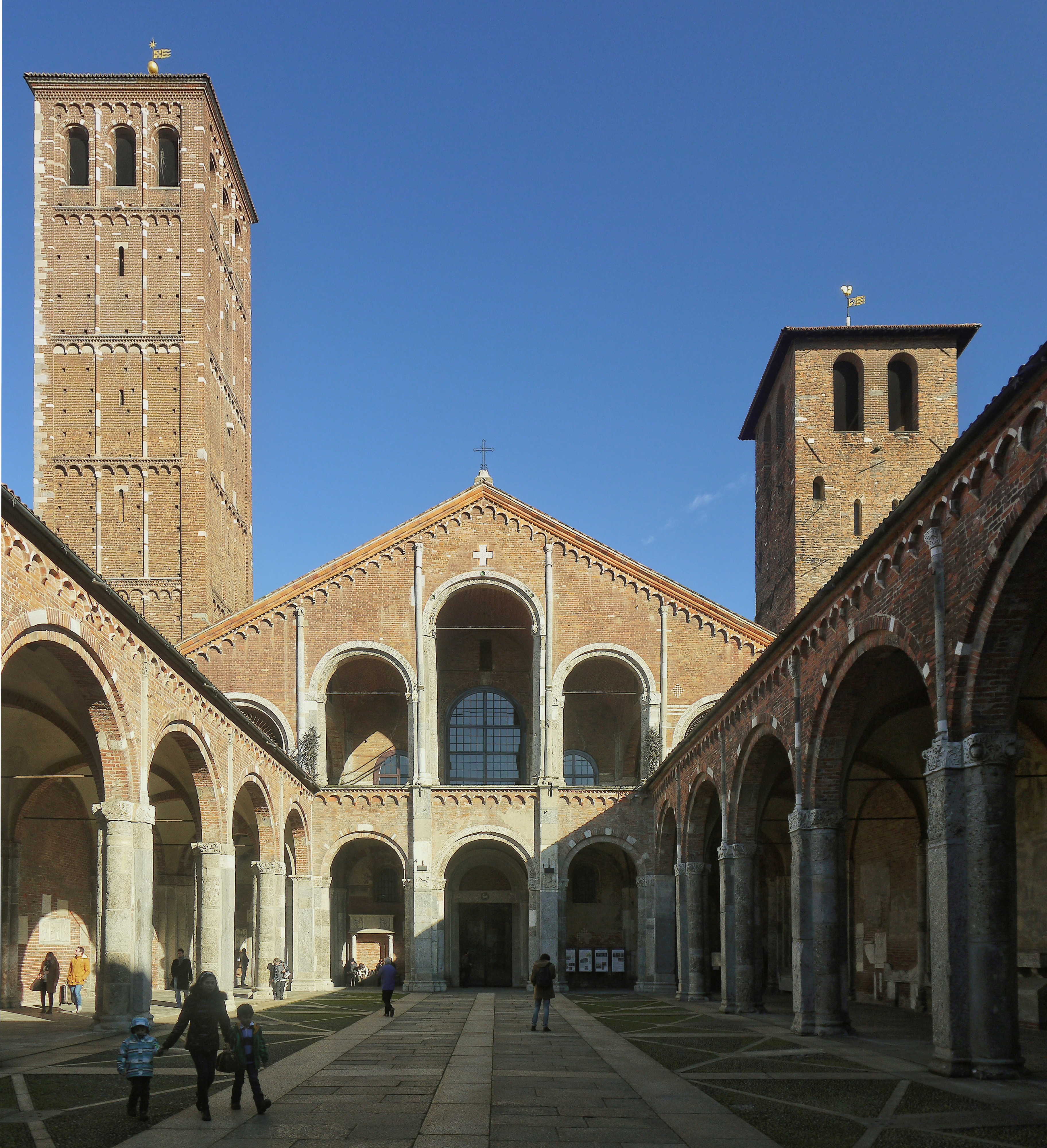 Atrium of the Basilica of Sant'Ambrogio.